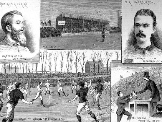 FA Cup final between the Old Etonians and Blackburn Olympic, played at Kennington Oval in 1883.